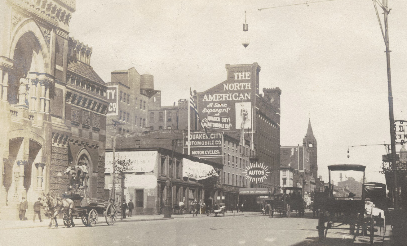 Description from Free Library of Philadelphia: Broad Street, north from Cherry